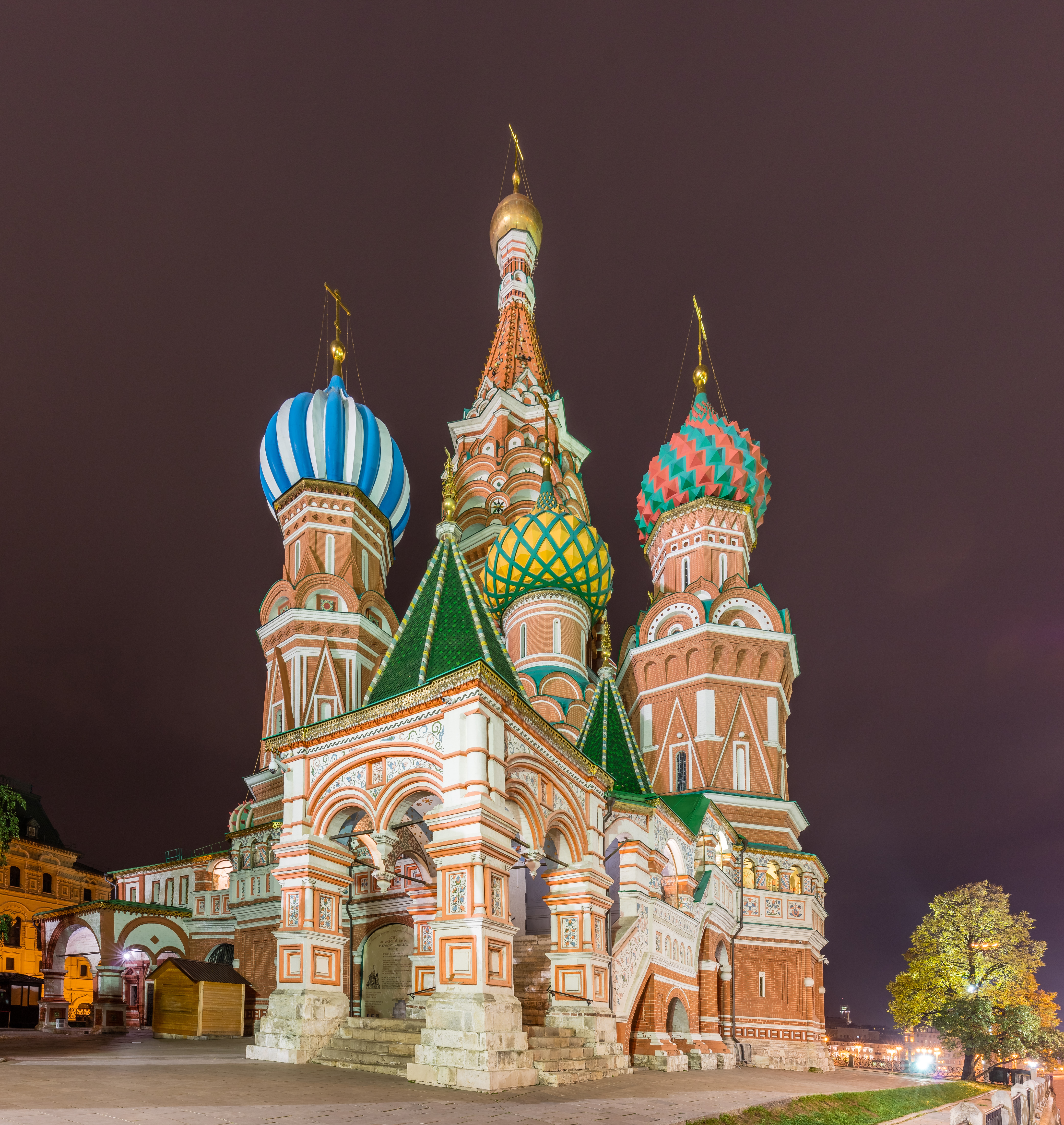 Saint Basil's Cathedral, Moscow, Russia